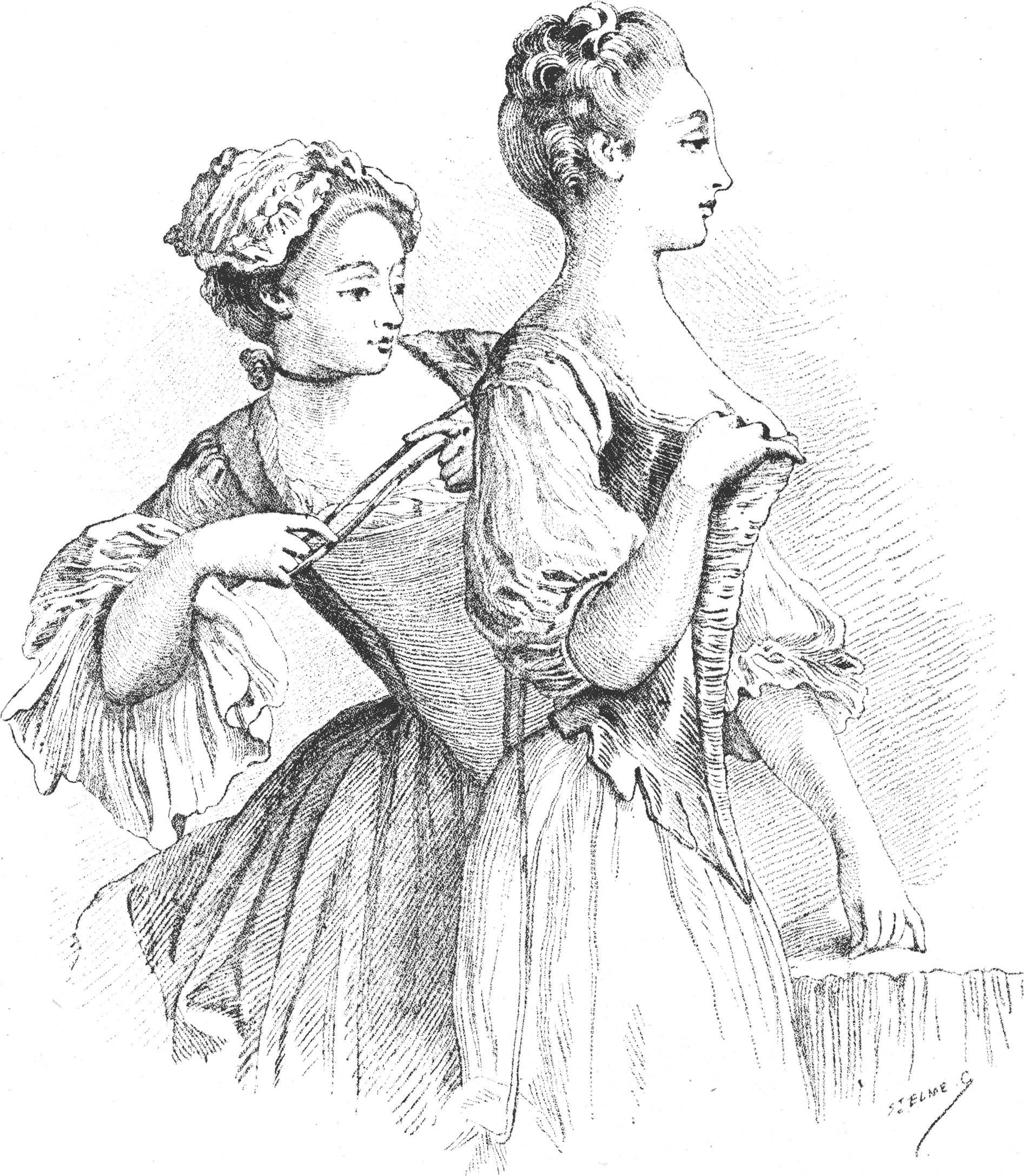 According to the toilet of an elegant from Freudeberg.